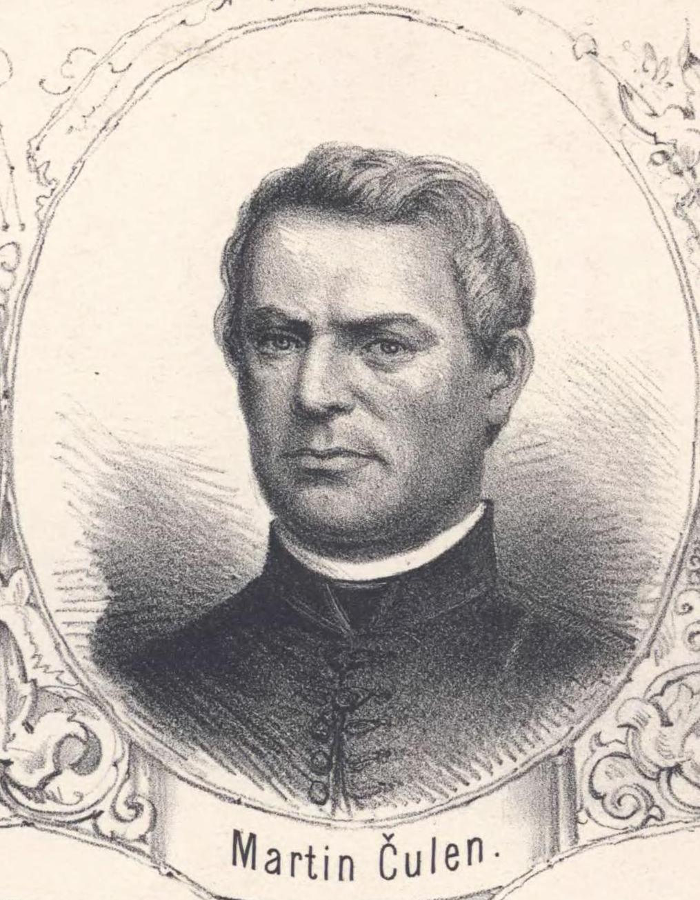 Portrait of Martin Čulen (1823 - 1894), Slovak mathematician. Picture cropped from a gallery of famous Slovaks.